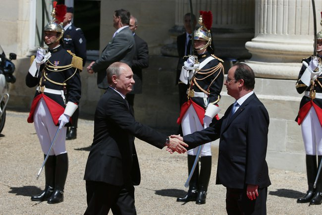 Vladimir Putin at celebrating the 70th anniversary of D-Day (2014-06-06)